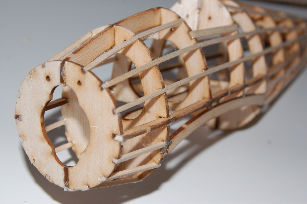 Balsa wood model airplane Photo by Zach Vesoulis on Feb 13 2006